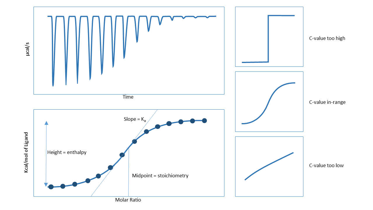 ITC thermogram with Kd, stoichiometry and enthalpy labelled